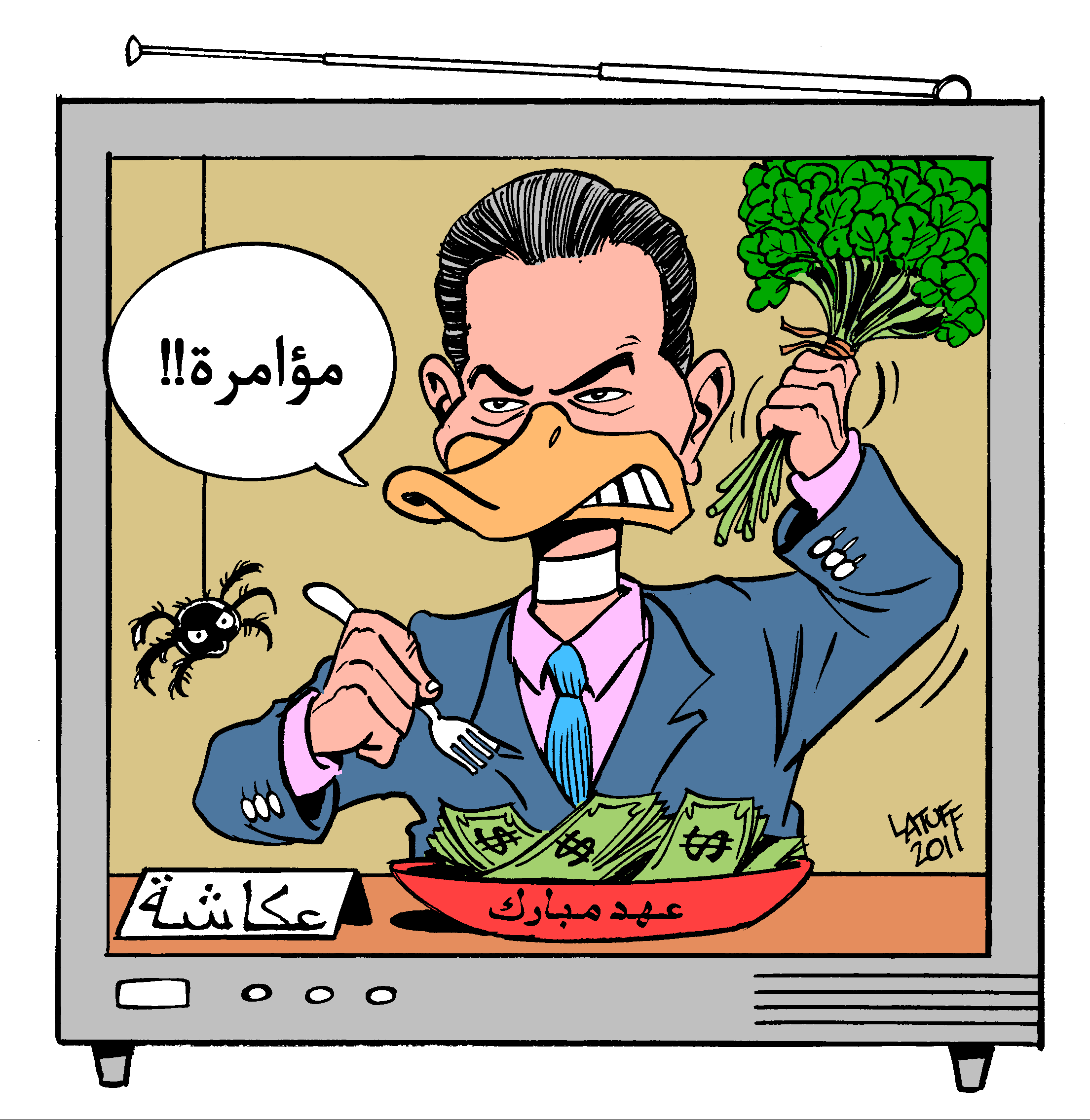 Tawfiq Okasha